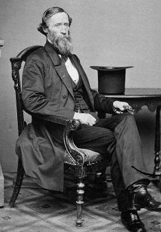 John Blair Smith Todd, Union General. Source: [1]